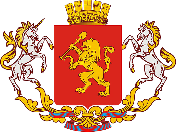 «Ceremonial» arms of Krasnoyarsk in 2010